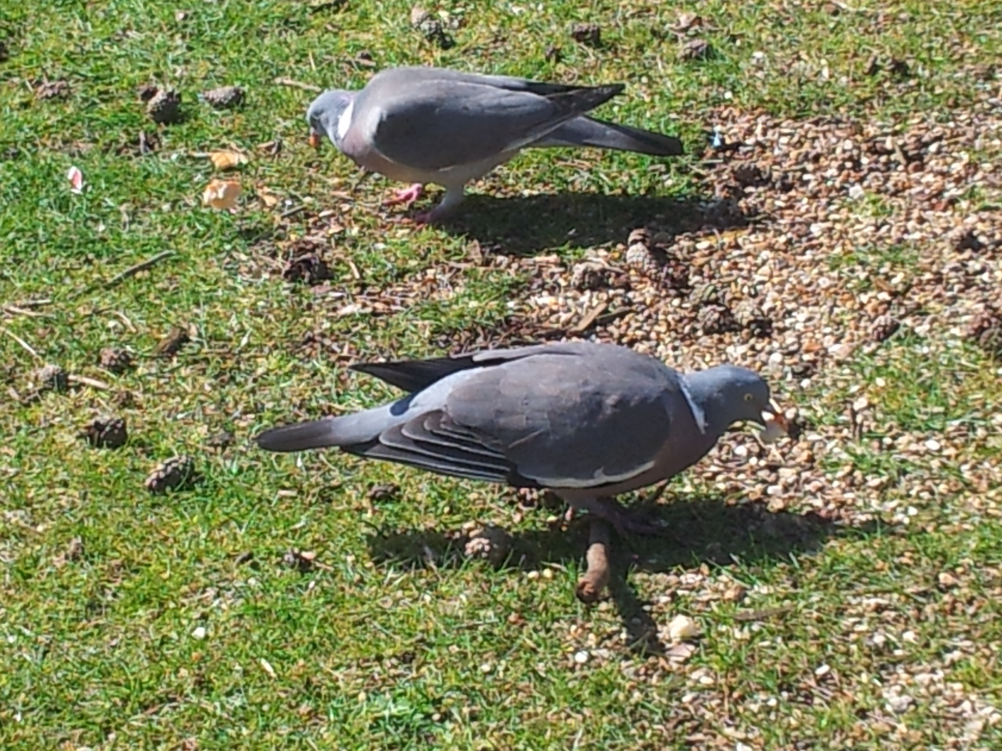 Two wood pigeons stand near Sandringham House